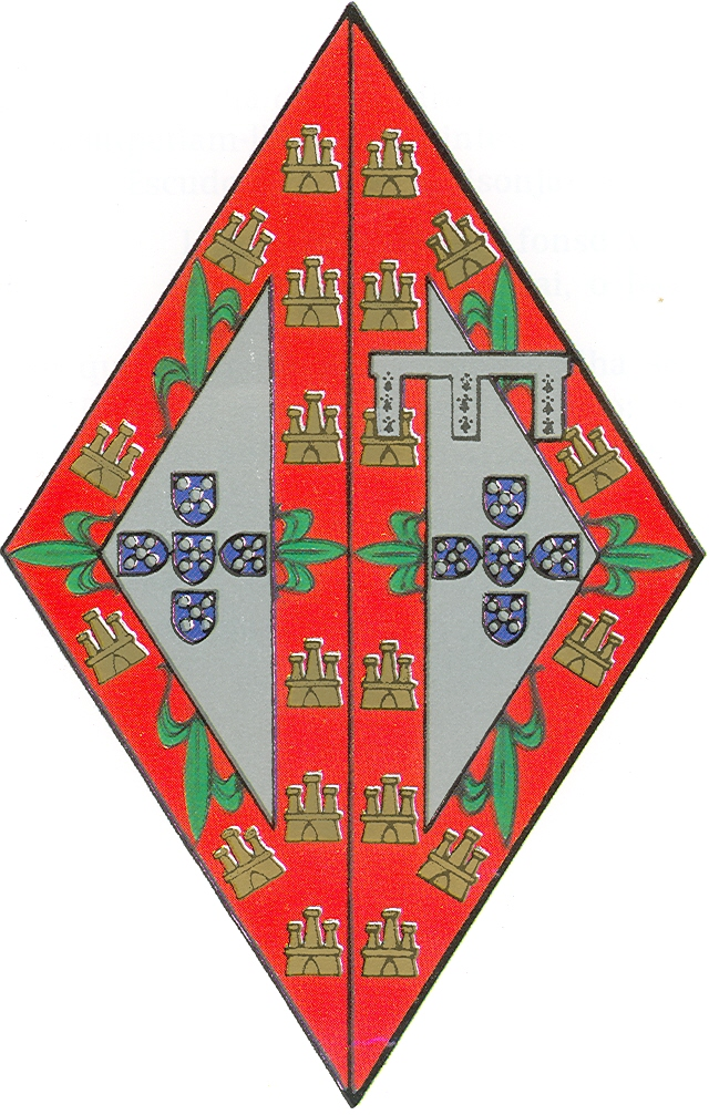 Coat of Arms of Infanta Isabel of Coimbra, Consorte Queen of Portugal